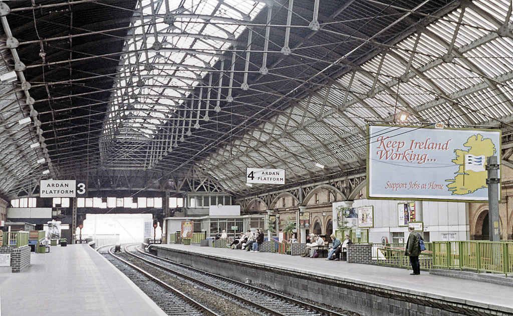 Dublin Pearse Station. View NW, towards Connolly etc.; ex-Dublin & South Eastern, Dublin - Rosslare etc. line, now mainly serving Dublin Area Rapid Transit (DART), Northern and Western Lines. Until 1966, this was Westland Row station.